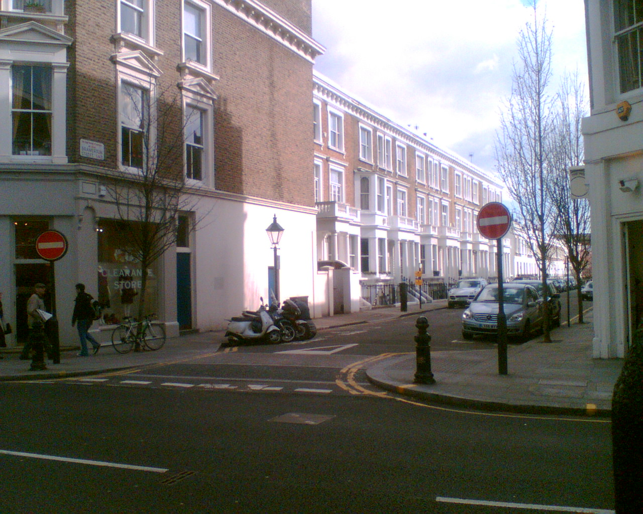 The Gateways club door in Chelsea, London 2007 Fluffball70 20:26, 9 March 2007 (UTC)